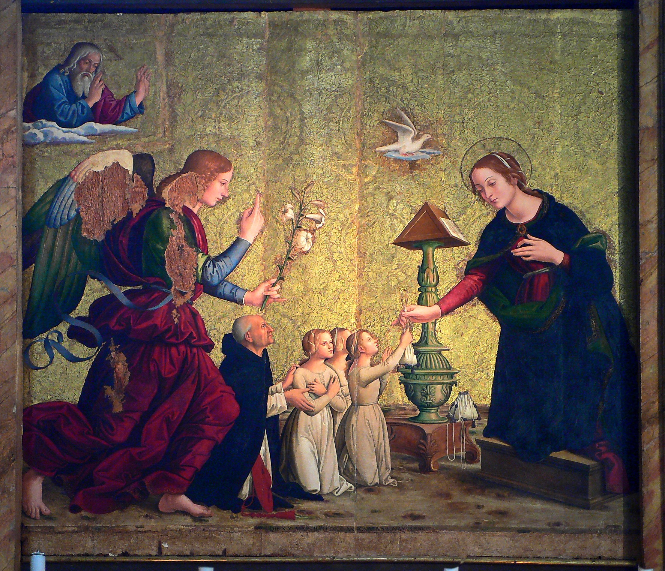 Santa Maria sopra Minerva (Rome), Cappella Annunziata, altarpiece